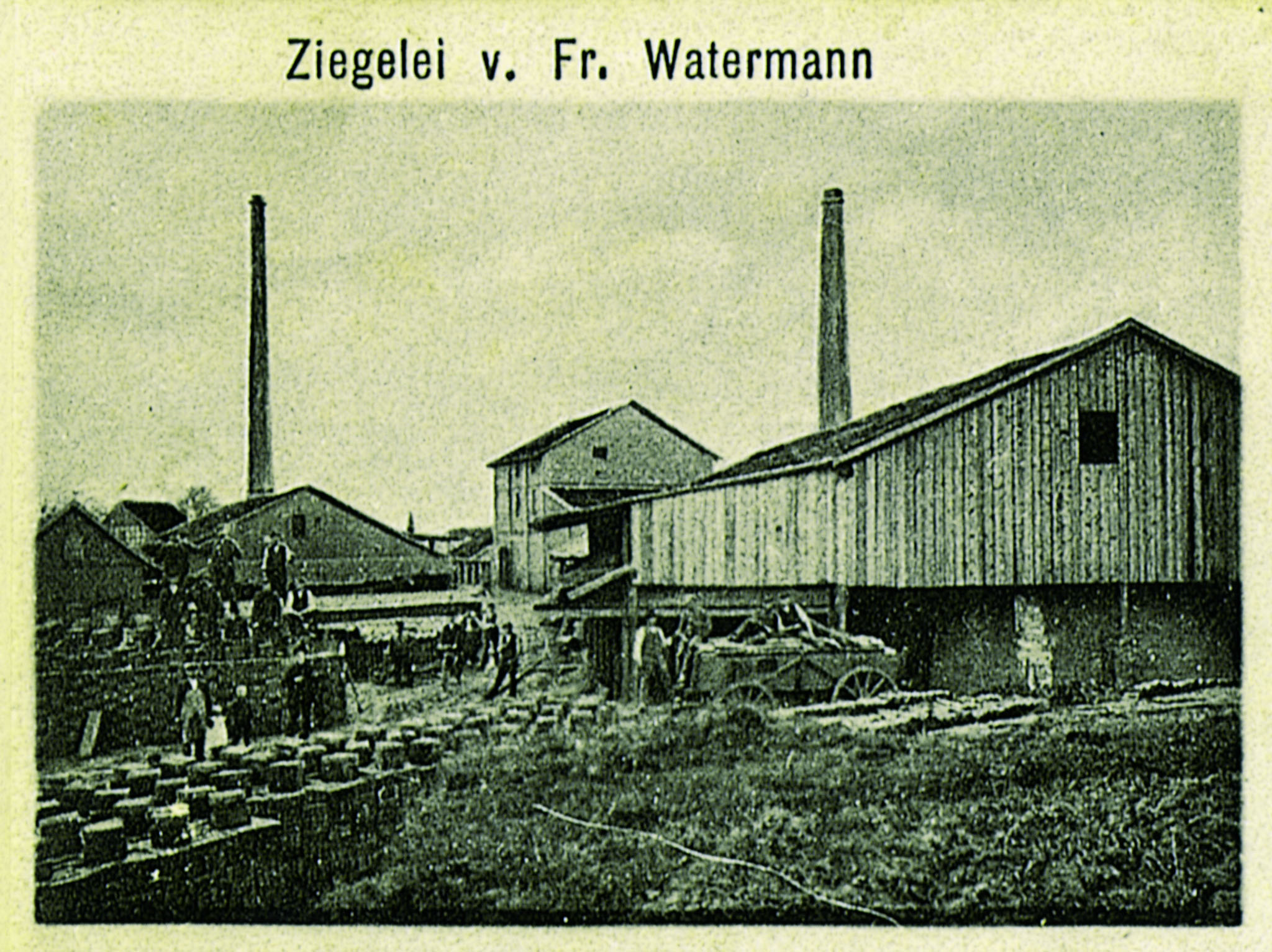 Old Brickyard in Hüllhorst, District of Minden-Lübbecke, North Rhine-Westphalia, Germany.